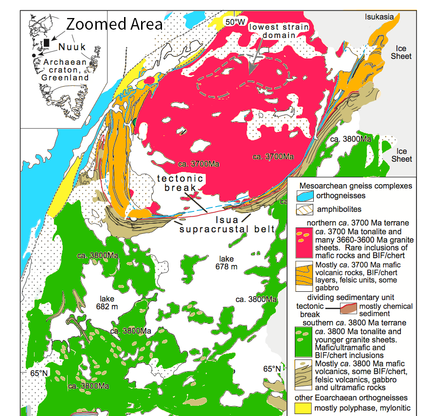 Map of Isua Area